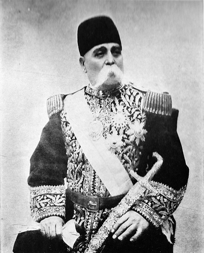 Ein oddole, Prime Minister of Iran